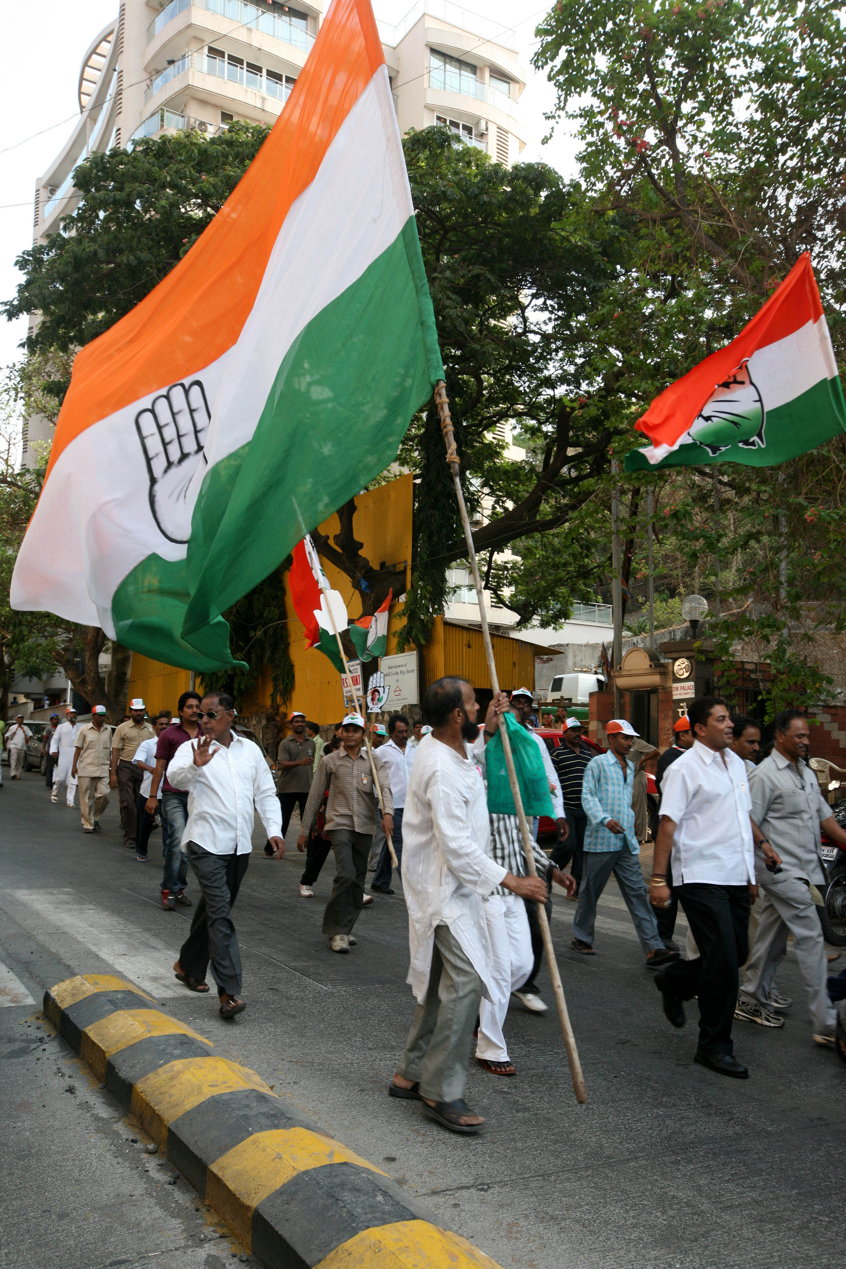 Party volunteer march with Priya Dutt, daughter of actor-politician Sunil Dutt, in the western Indian city of Mumbai.